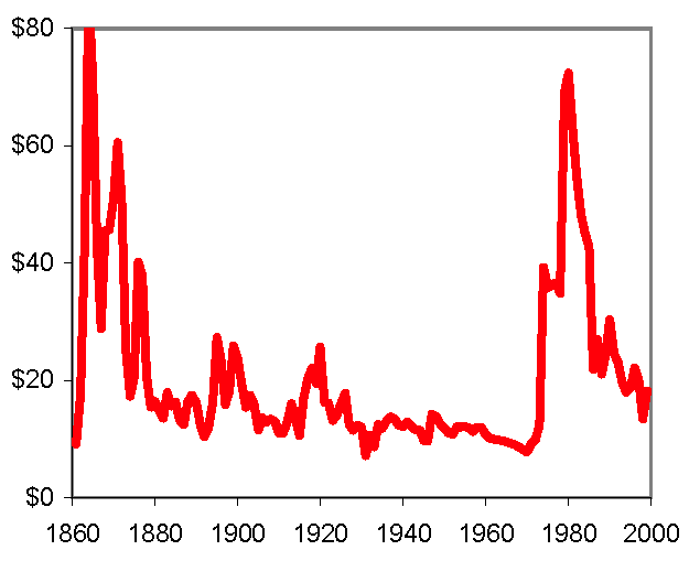 Oil prices from 1861-1999 in prices of 1999; US dollars per barrel. Source of data: 1861-1944 US Average 1945-1985 Arabian Light posted at Ras Tanura 1986-1999 Brent spot Graph made by user:donarreiskoffer